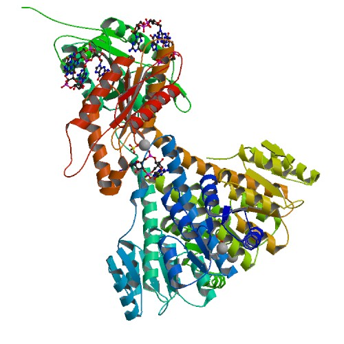 Crystal structure of diguanylate cyclase PleD in complex with c-di-GMP from Caulobacter crecentus